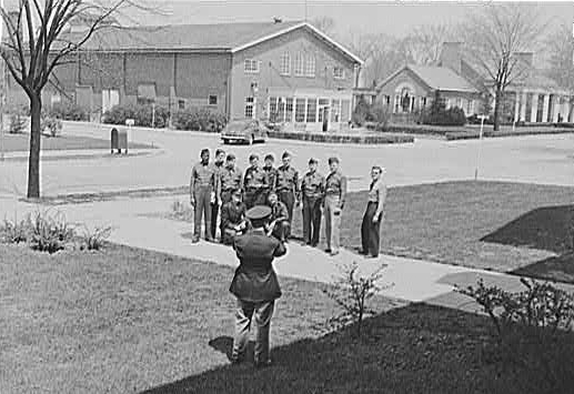 Fort Benjamin Harrison (1942) — located in Lawrence, north of Indianapolis, in Indiana. This is an edited version of an image made in April 1942 by photographer Jack Delano of the United States Farm Security Administration of a group of United States Army chaplains about to leave for their stations after having completed training at the Army Chaplain School at Fort Benjamin Harrison.